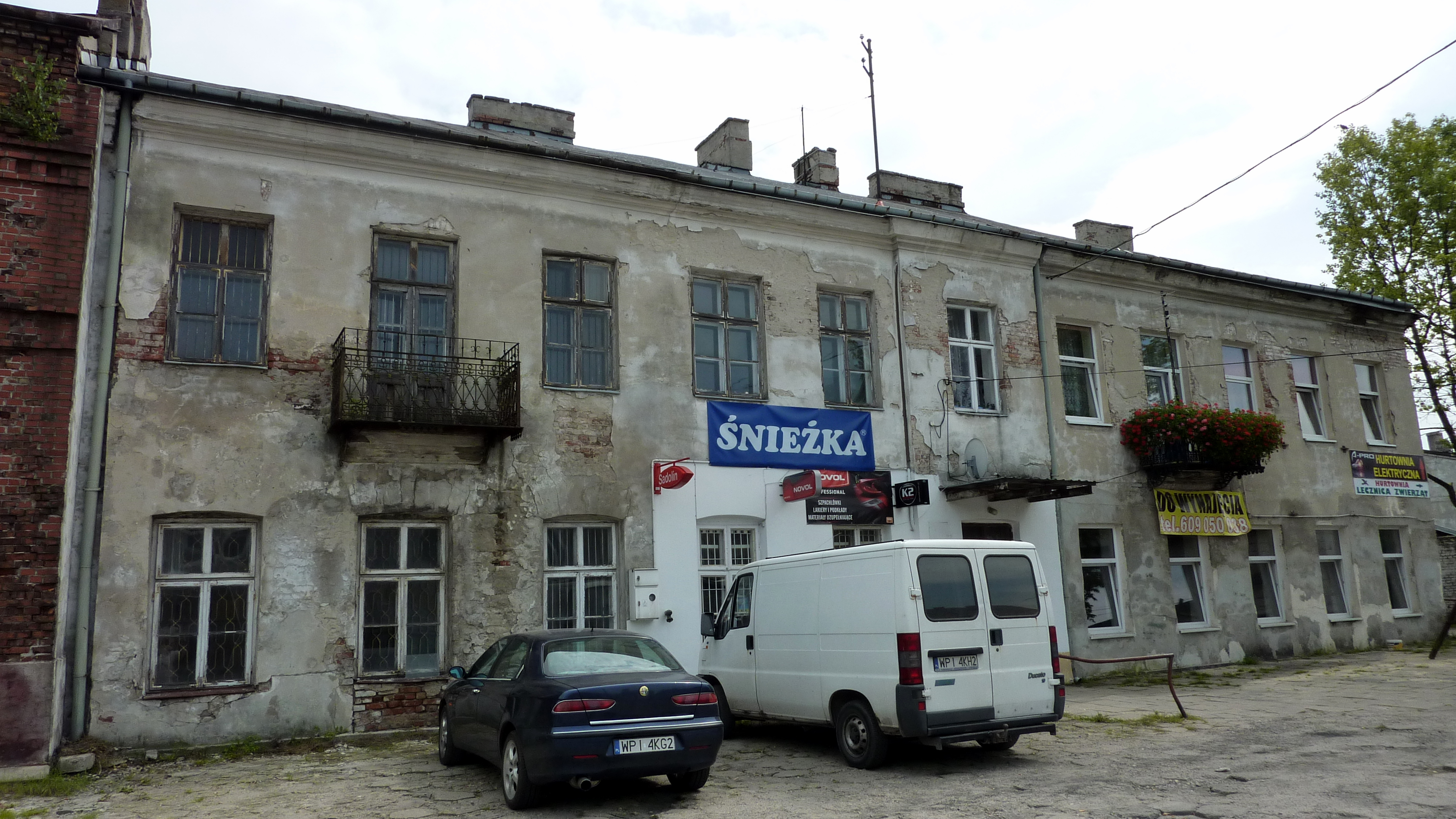 Tzadik Alter's house in Góra Kalwaria, Poland